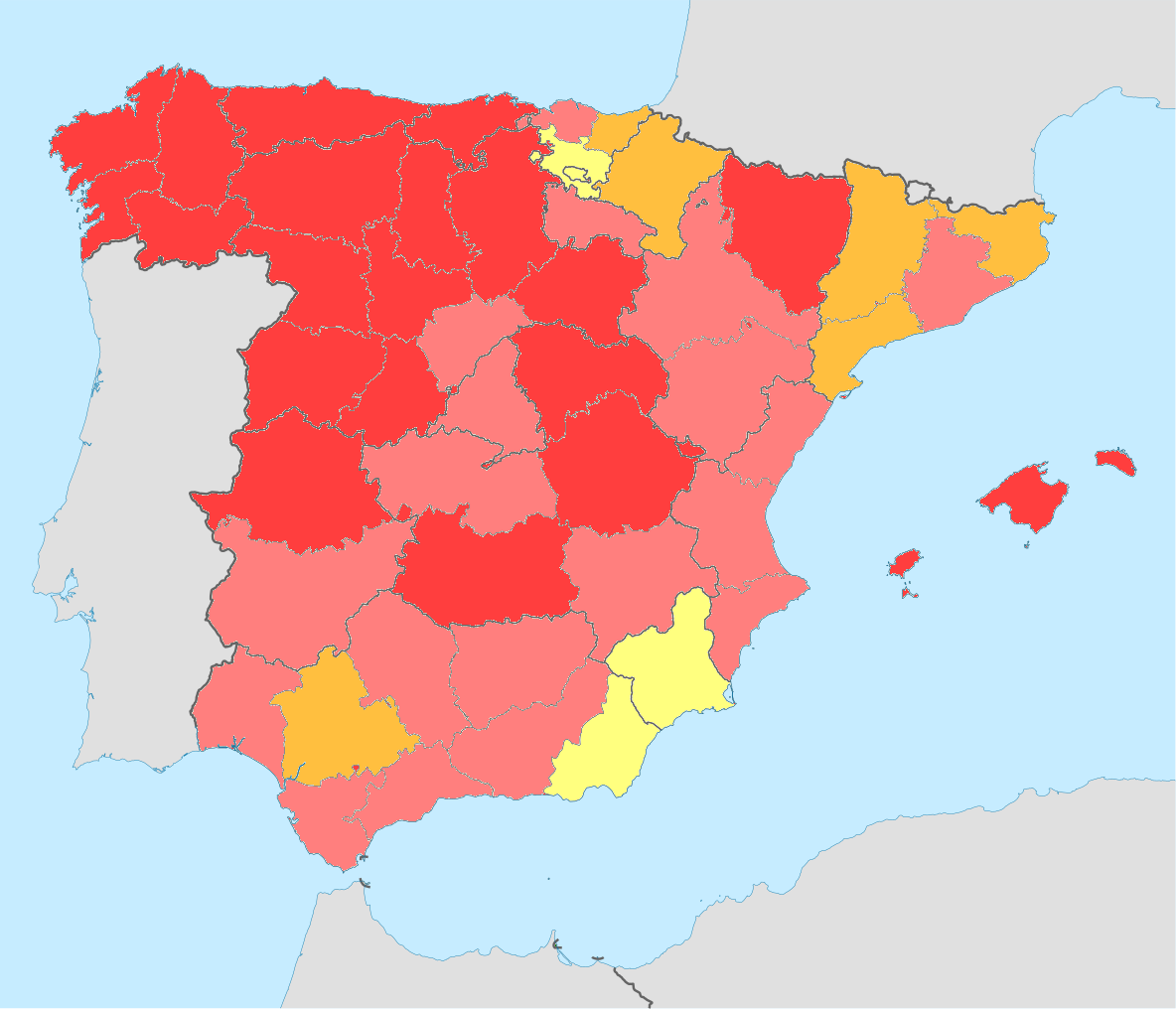 Data is from Eurostat